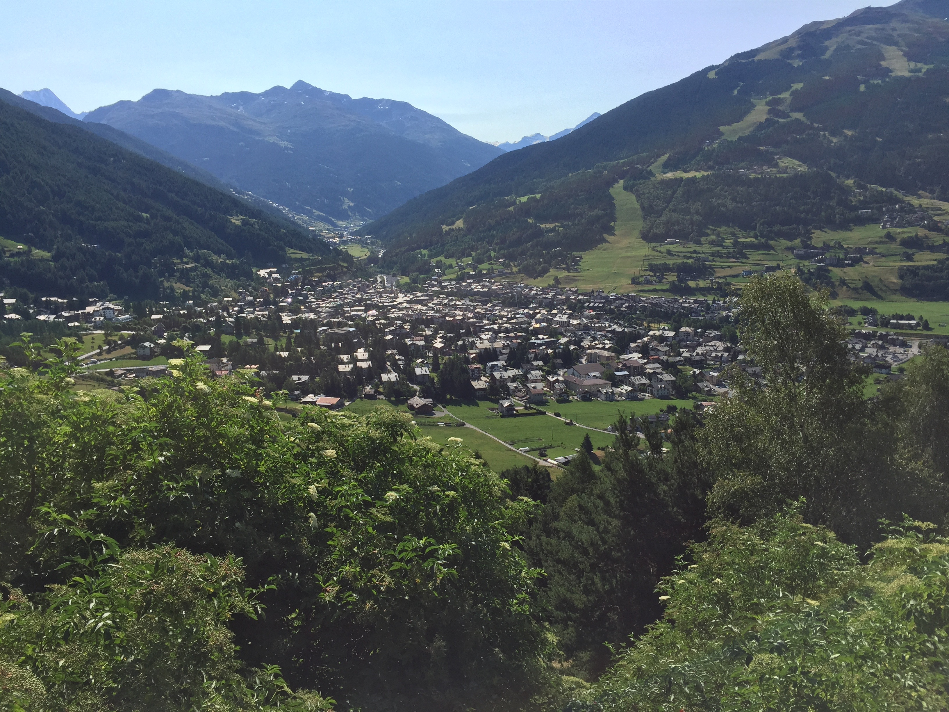 View over Bormio from the west side